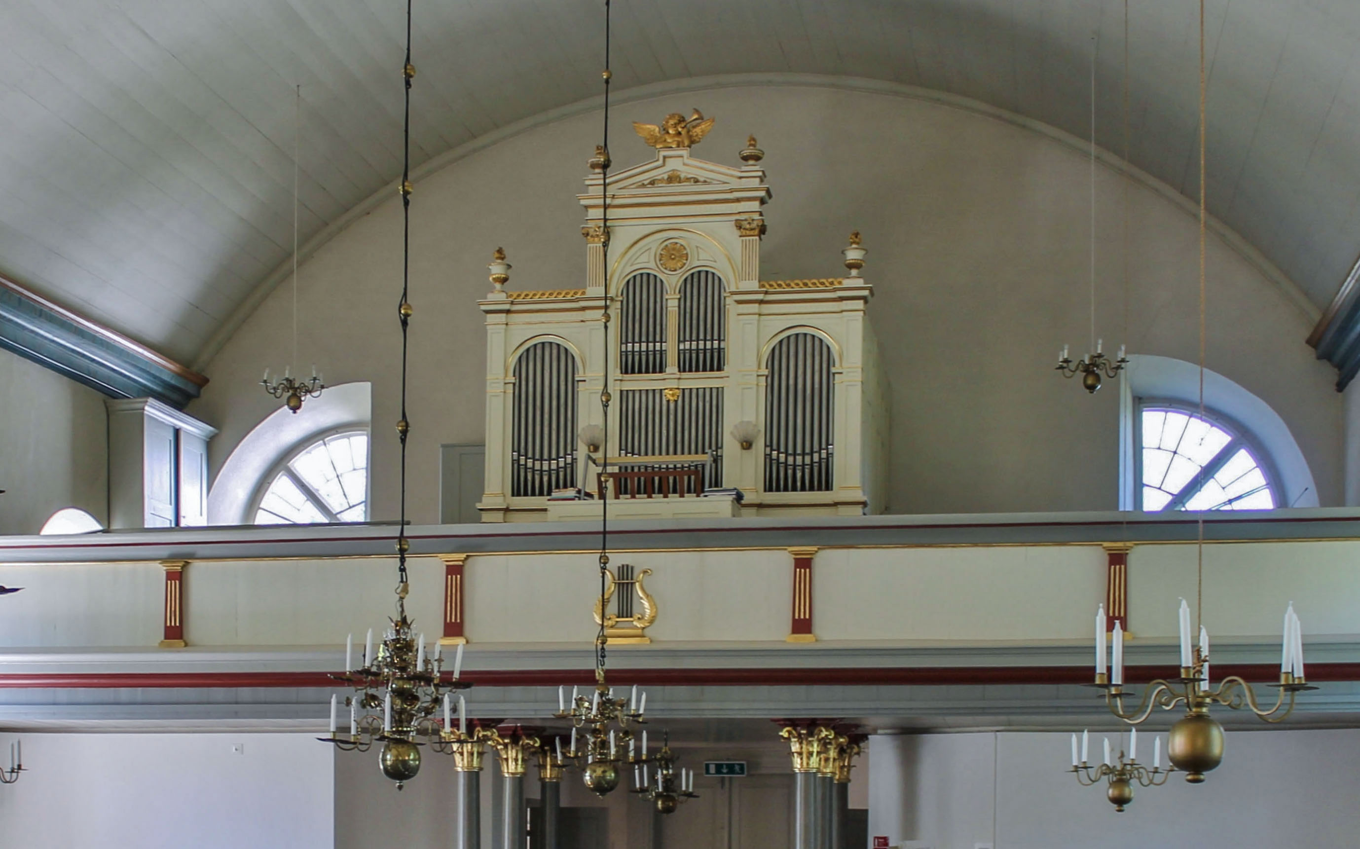 Sandby Church. The organ